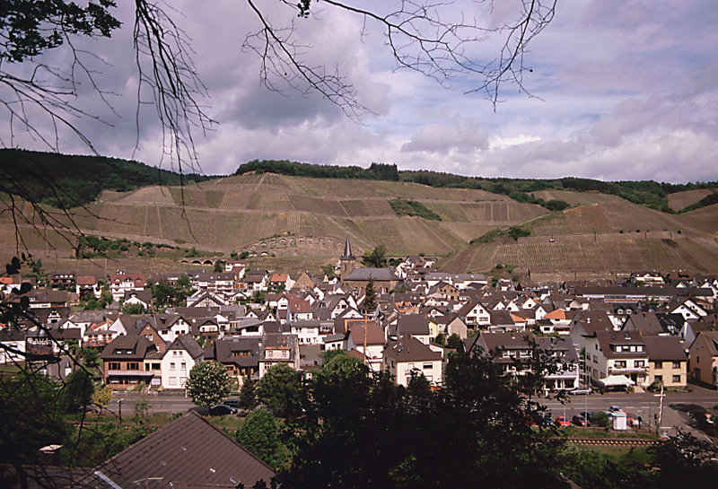 The Town of Dernau, Germany, seen from the Krausberg